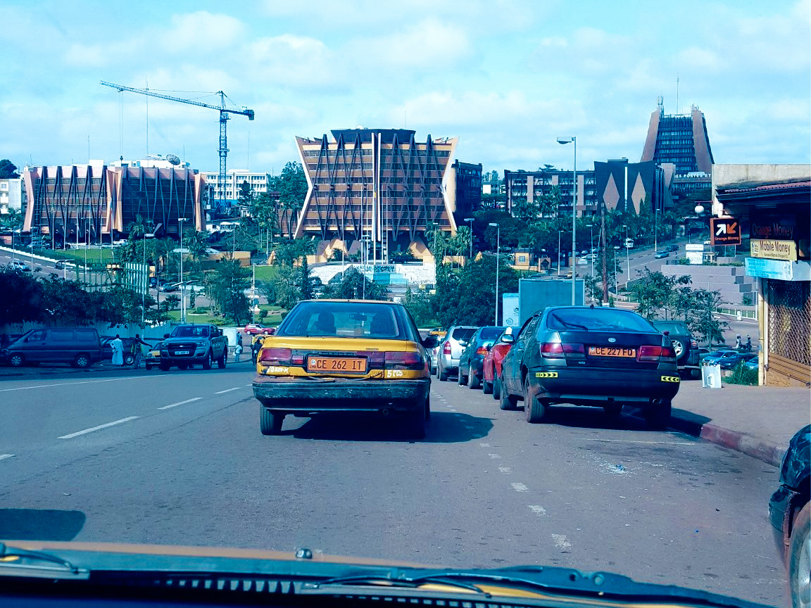 This is an image with the theme "Africa on the Move or Transport" from: Cameroon